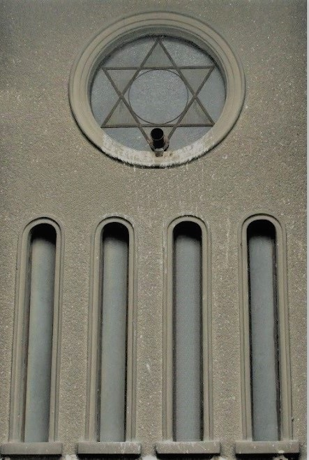 "Beth Hamidraș" Temple, Beit Hamidrash Synagogue, on 78 Calea Moșilor, Bucharest, 2010